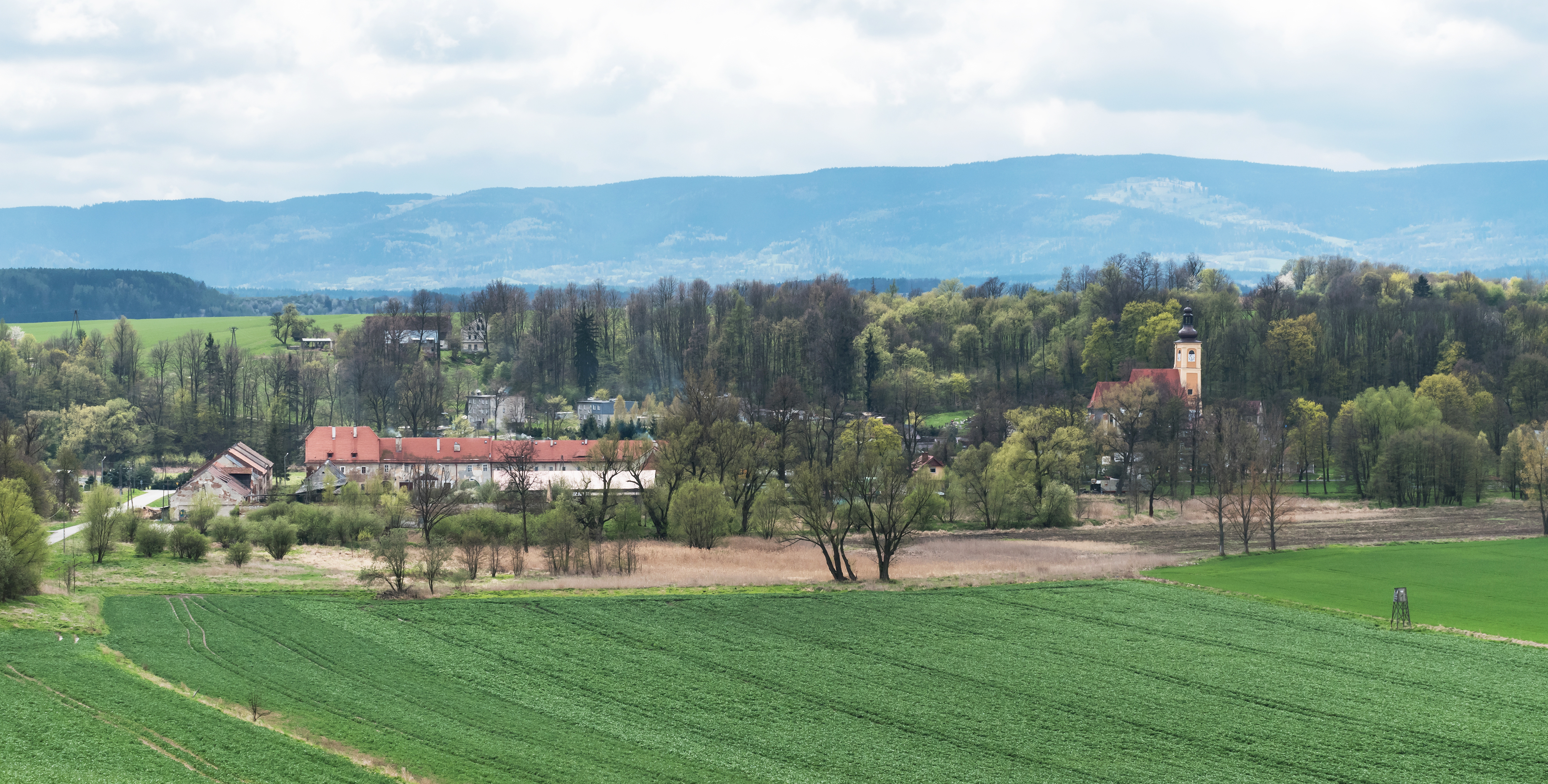 Szalejów Dolny